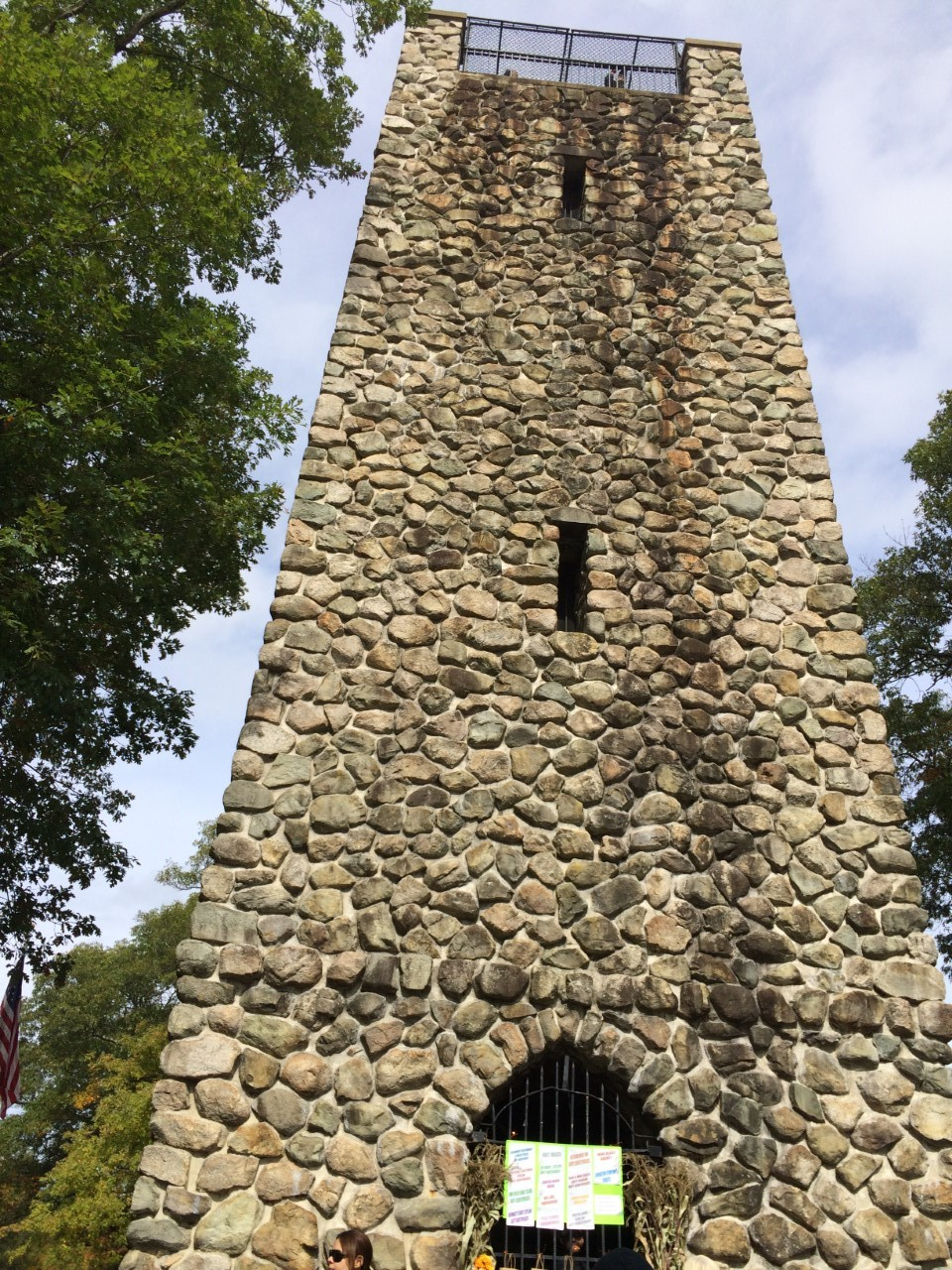 DW Fields park tower side view on Towerfest Day Octoboer 8 2016